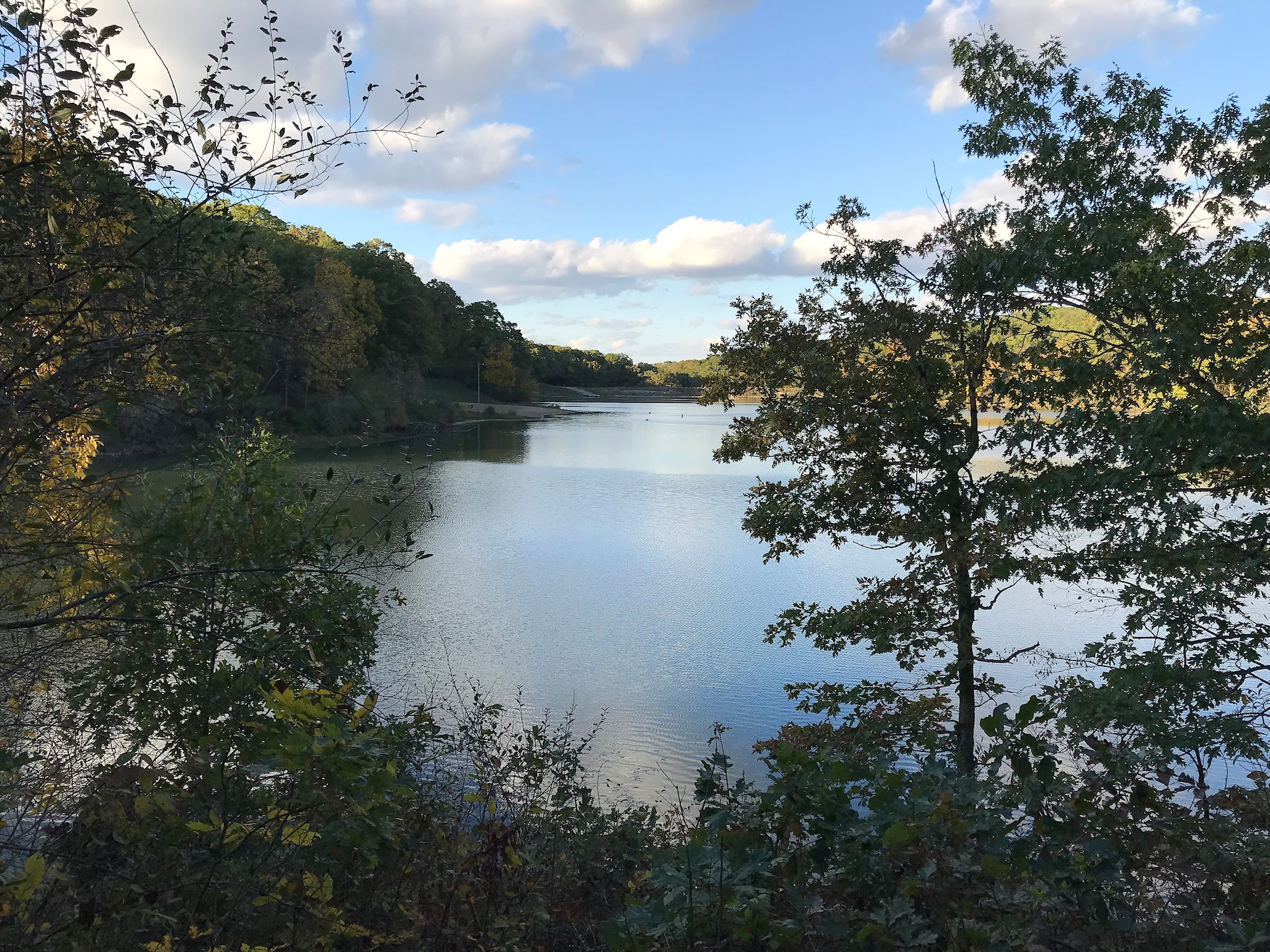 Lacey-Keosauqua State Park. The lake is a contributing property in historic district listed on the Nationa Register of Historic Places.